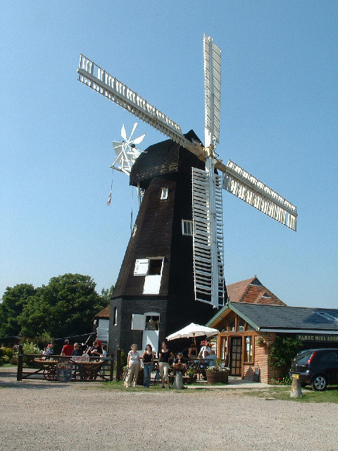 Photograph of Sarre windmill